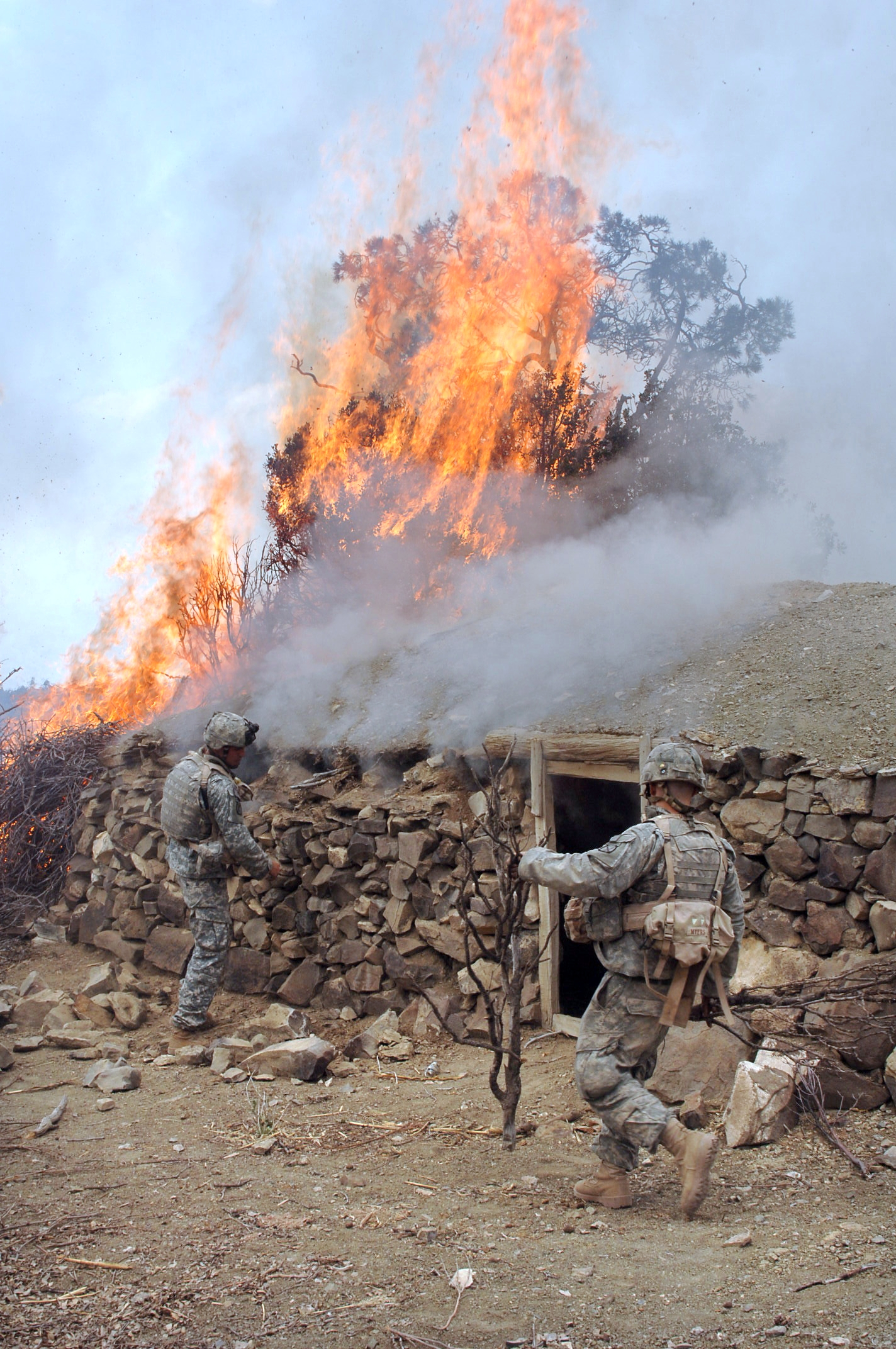 U.S. Army Soldiers from Charlie Company, 2nd Battalion, 87th Infantry Regiment burn down a Taliban safehouse discovered during operations in the Paktika province of Afghanistan March 30, 2007.